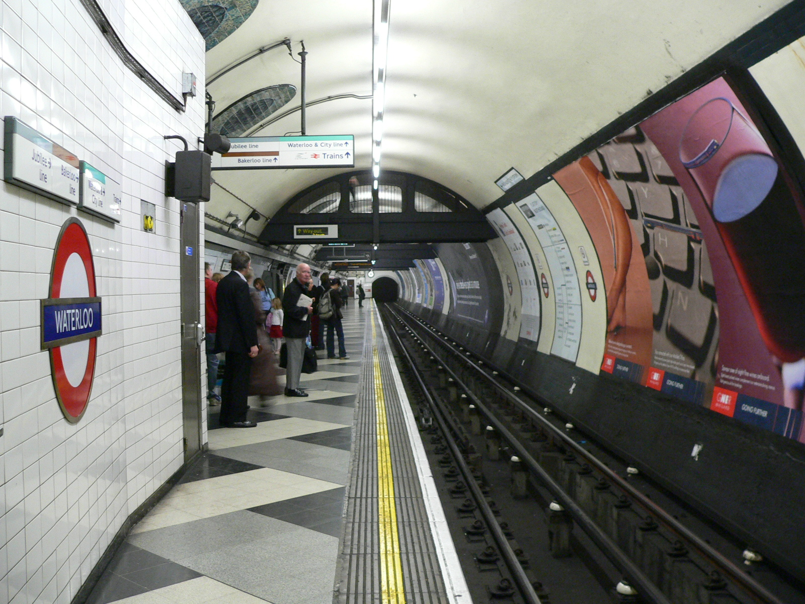 The northbound Northern Line platform at Waterloo station in London on 24 October 2005.